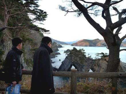 Katsuhiko Yokomitsu, Senior Vice-Minister of the Environment, inspected Rikuchū Kaigan National Park in Japan on December, 2011.